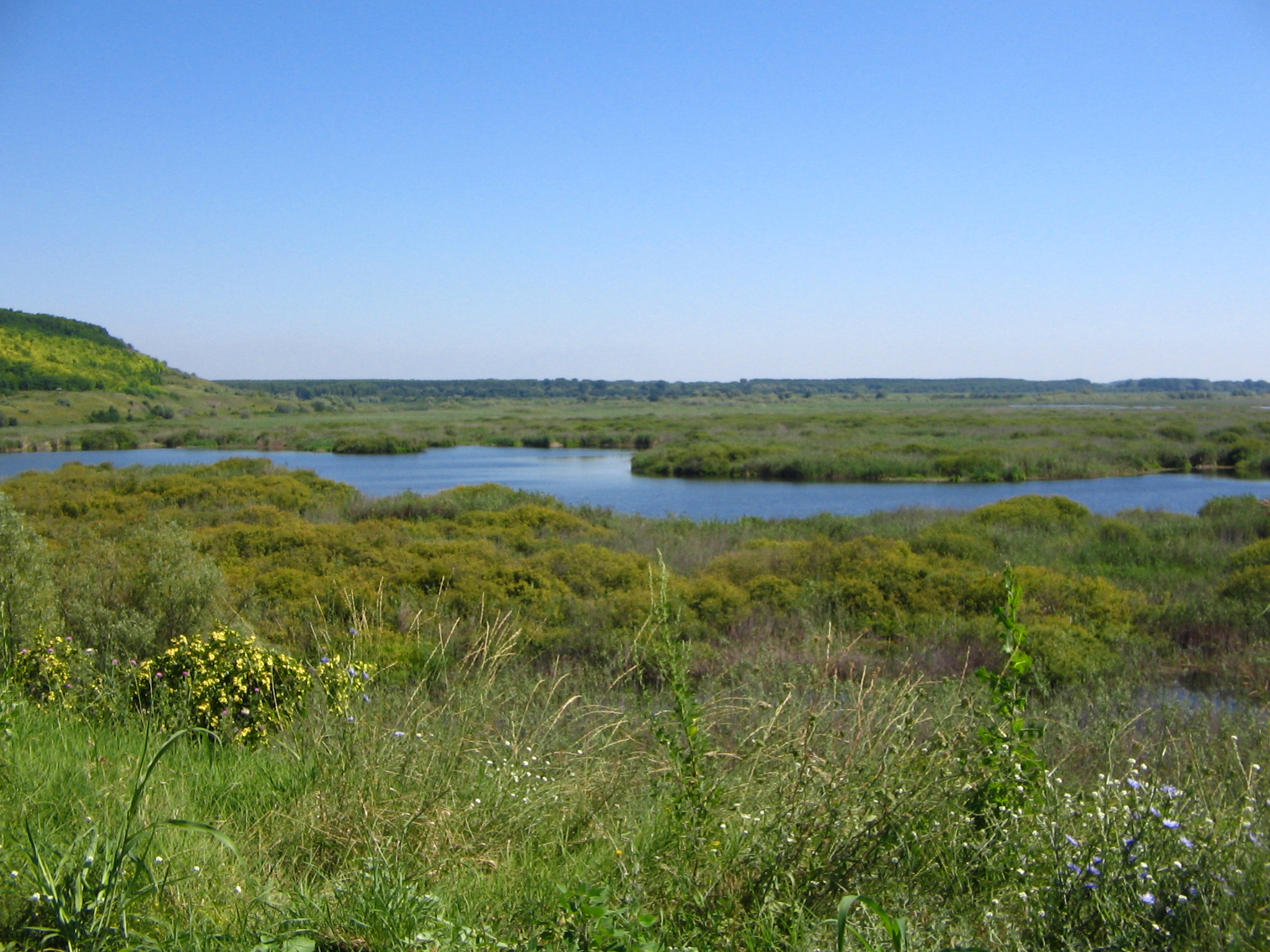 Picture of Srebarna Lake